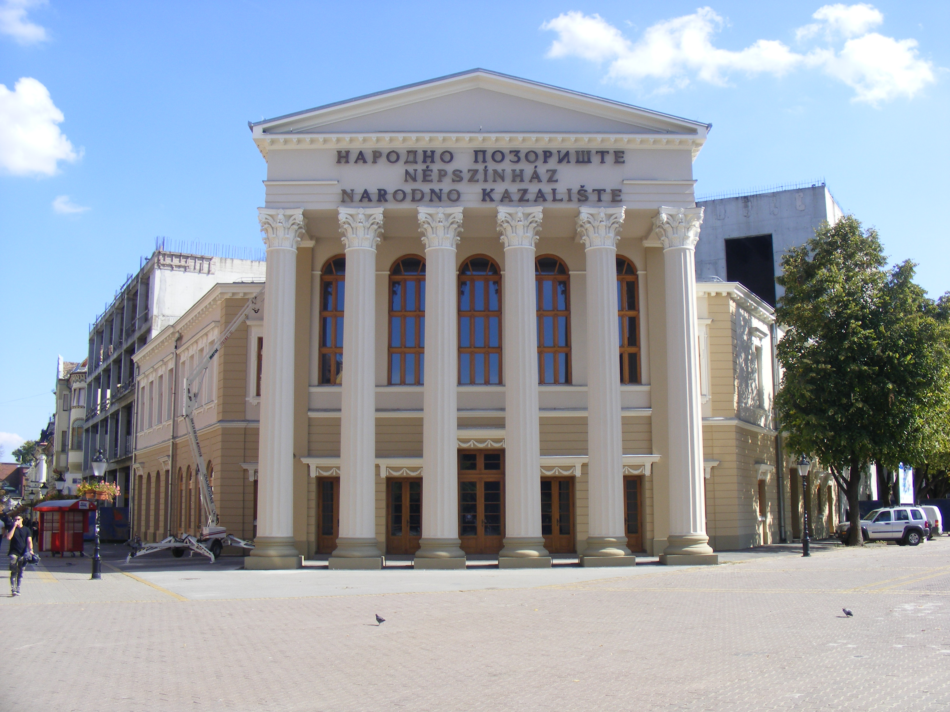 Folk Theater, Subotica, Serbia